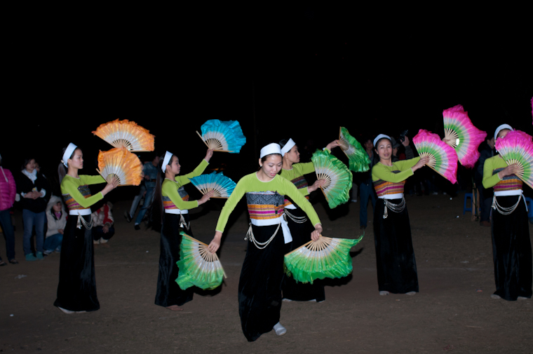 Cultural dance performed by one of the ethnic group in Vietnam.